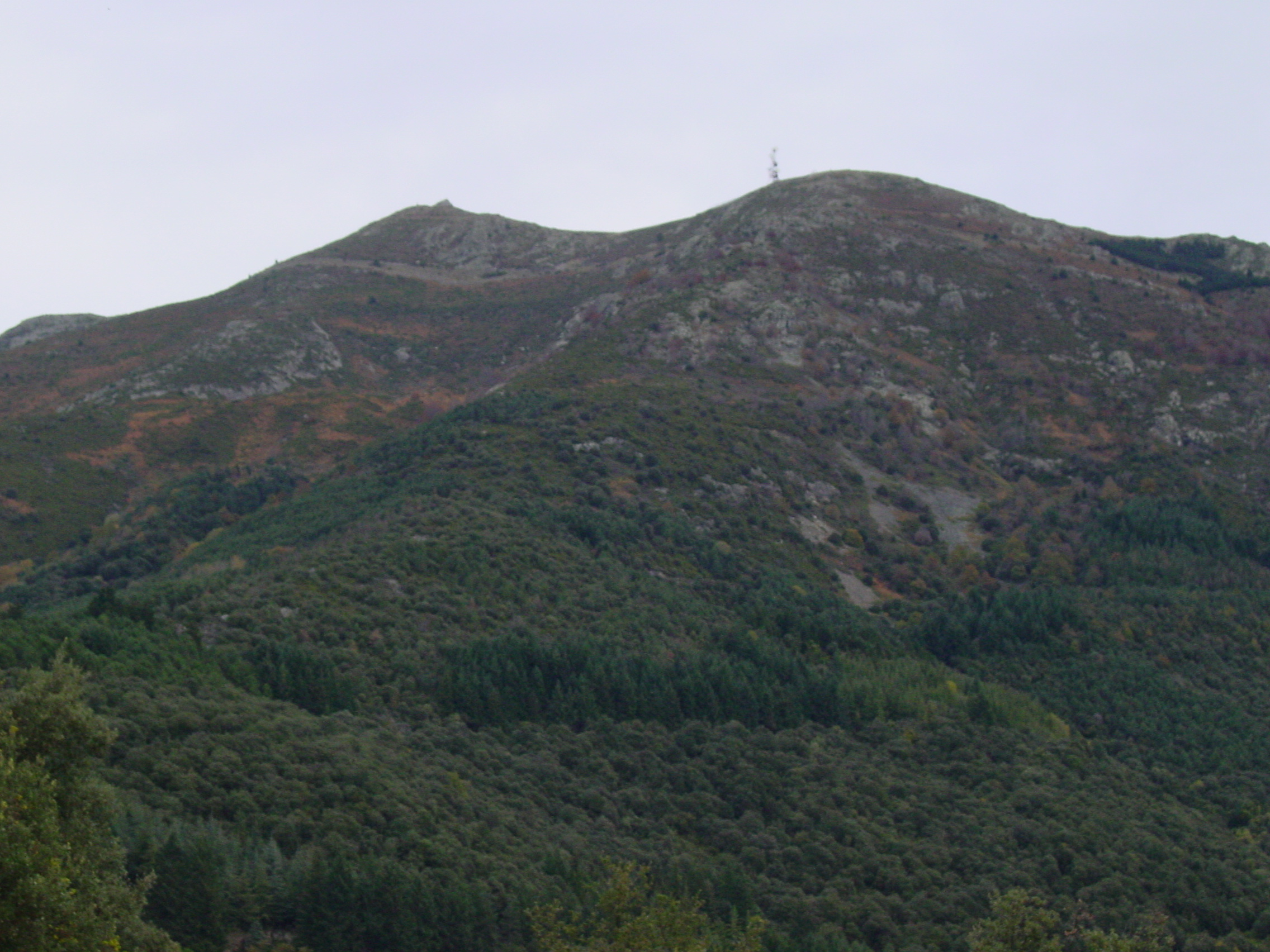 Looking up from the south to El Turó de l'Home in Montseny, Spain. Photograph taken by myself in November 2004.